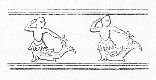 Drawing of section of mermaid livery collar of Thomas de Berkeley, 5th Baron Berkeley (d.1417) from his monumental brass in the Church of St Mary the Virgin, Wootton-under-Edge, Gloucestershire